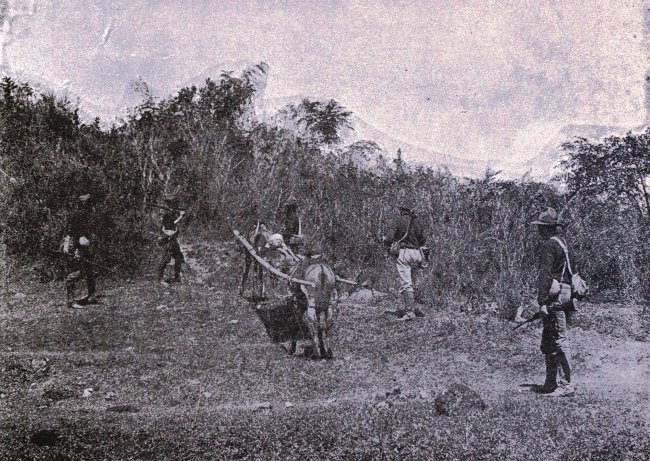 Original description (cropped out): On a stretcher: This view shows how the wounded were removed from the field of honor to the hospital. From Souvenir of the 8th Army Corps, Philippine Expedition, published by Dow Bros. in Manila, 1899.